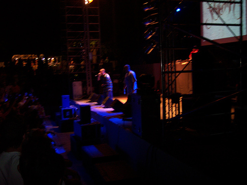 Photo of a Falsalarma show on Hotpoint Festival 07